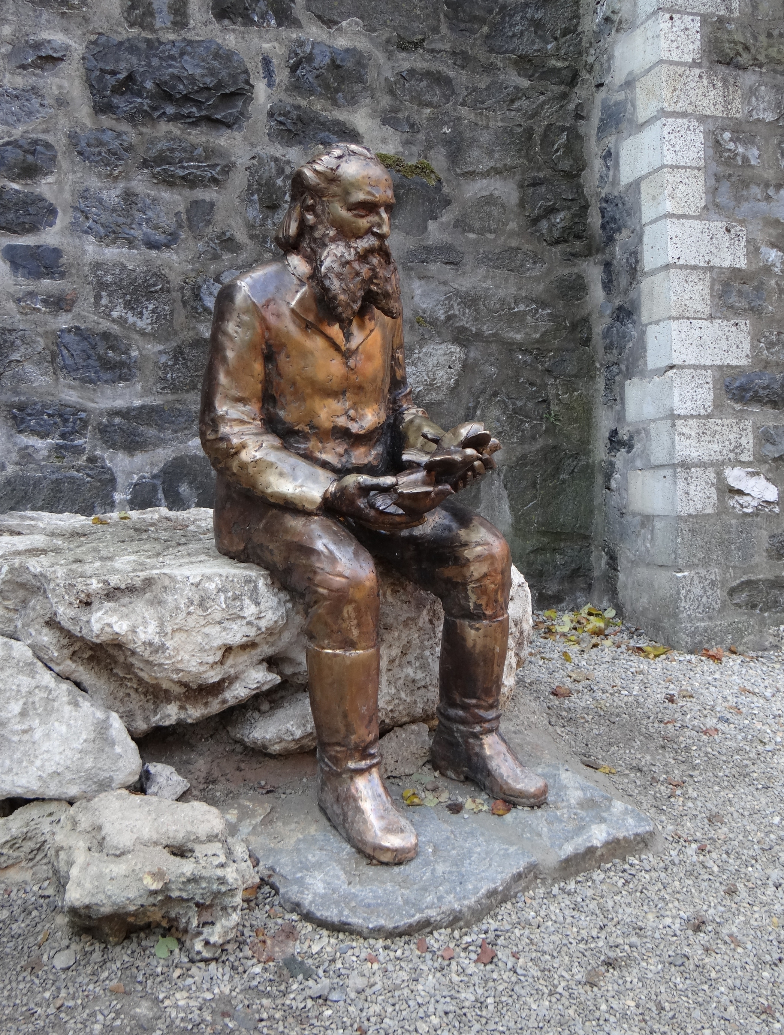 Statue of Ottó Herman, Lillafüred,Hungary